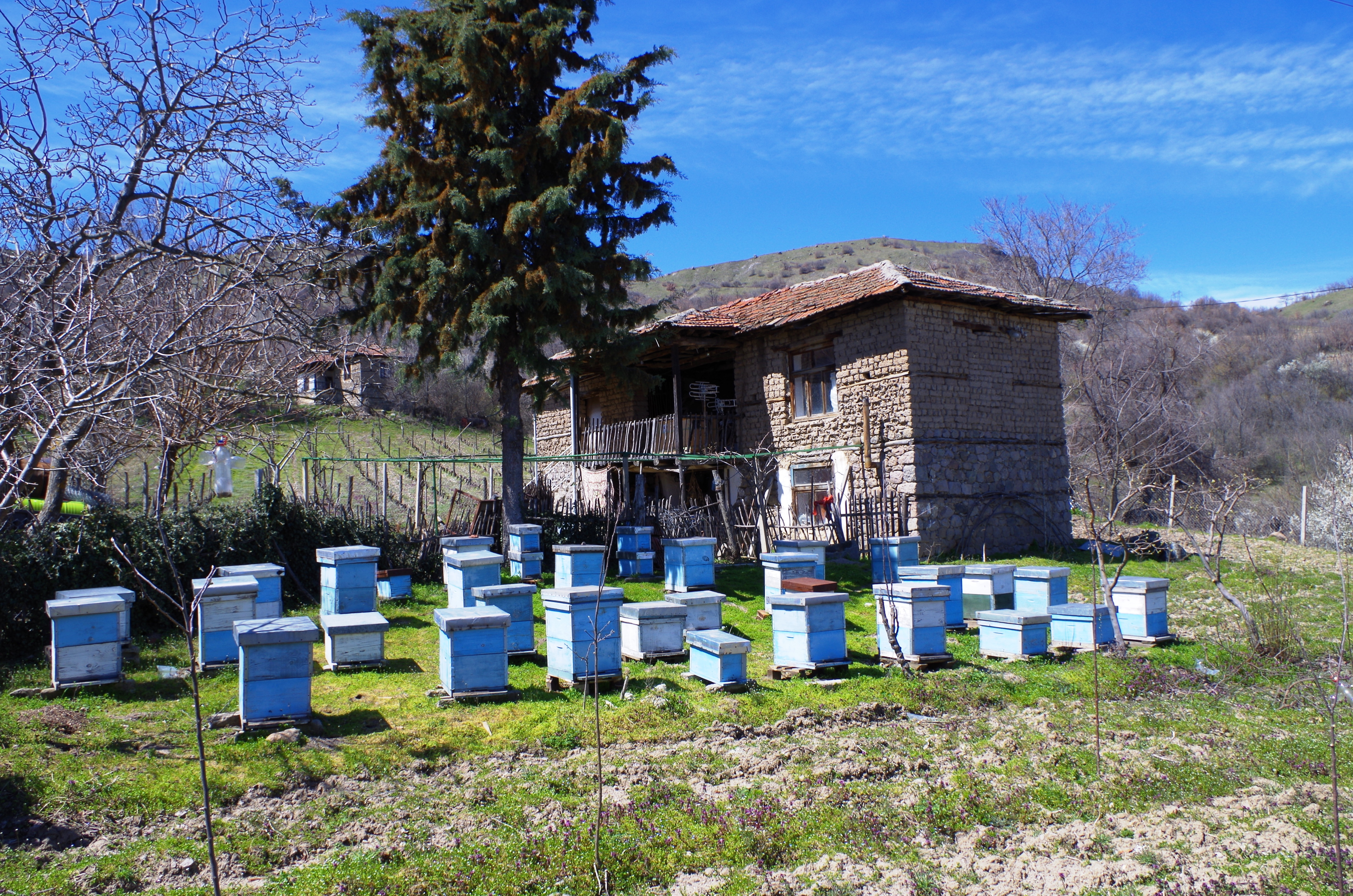 Hives in the front of old family house in the village Gorni Disan